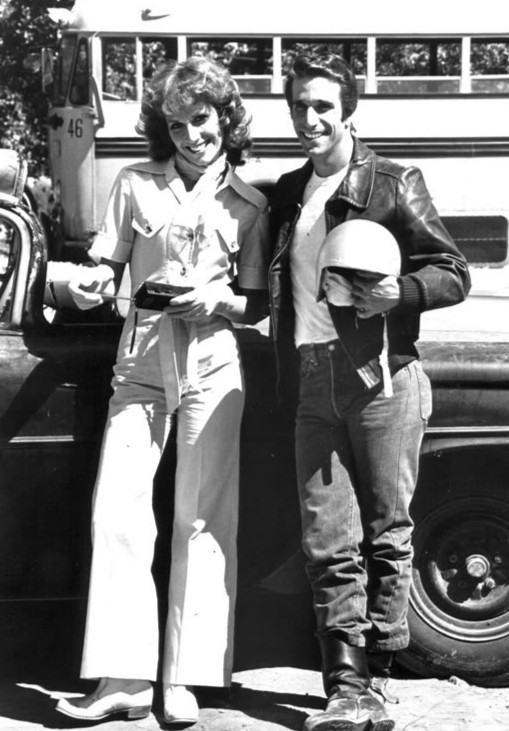 Photo from the television program Happy Days. In this episode, Fonzie (Henry Winkler) meets Pinky Tuscadero (Roz Kelly) and falls head over heels for her.